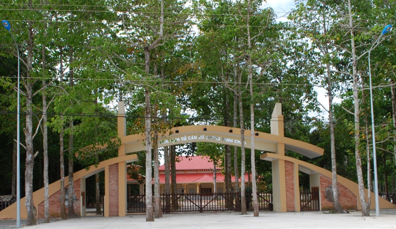 Dương Minh Châu